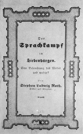 Stephan Ludwig Roth: Der Sprachkampf (from 1842)